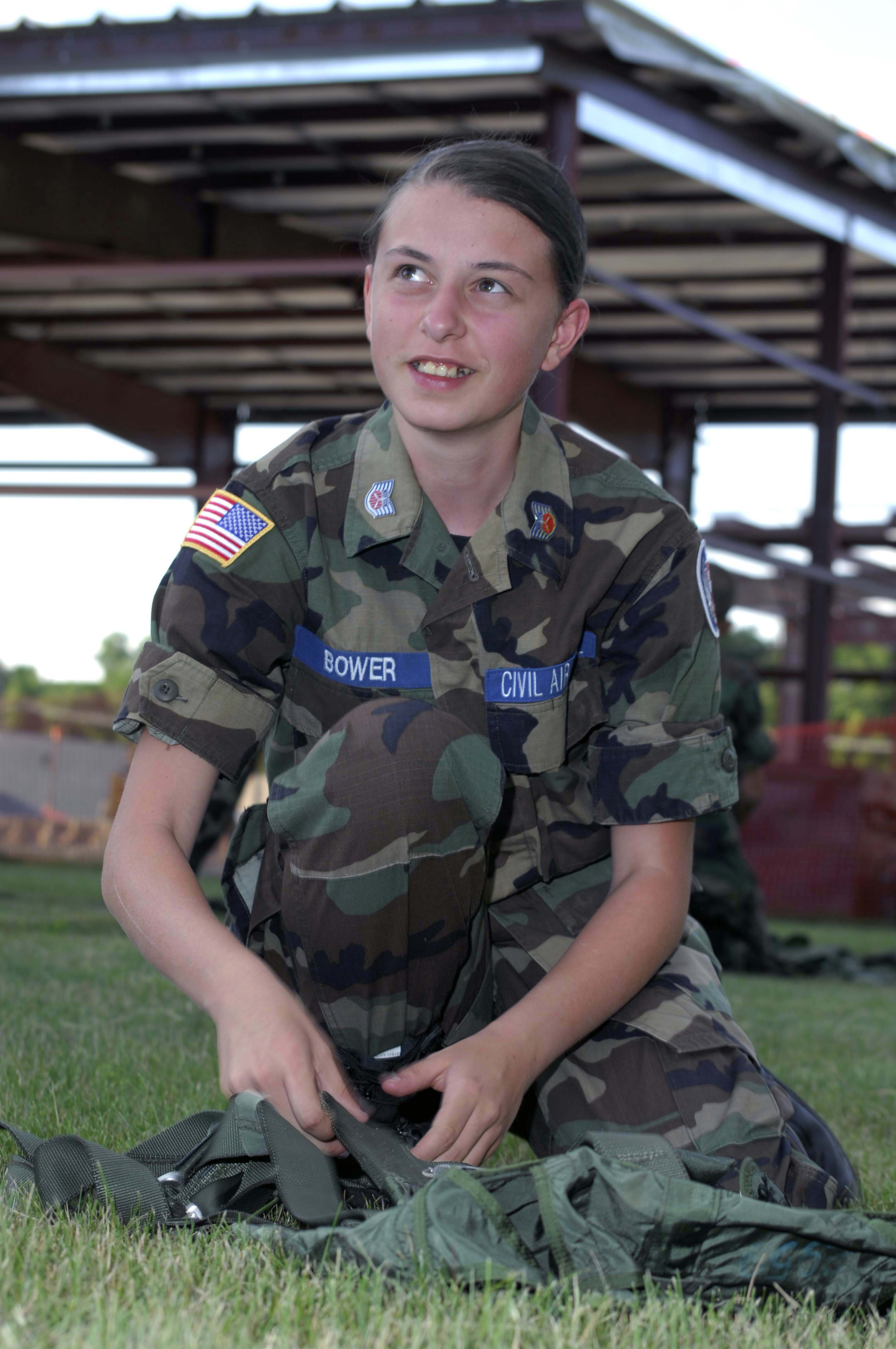 Cadet Tech. Sgt. Jessica Bower, with the Civil Air Patrol Harrisburg International Composite Squadron 306, listens on how to adjust a parachute harness June 29 during an airborne class on the 193rd Special Operations Wing Pennsylvania Air National Guard Base.